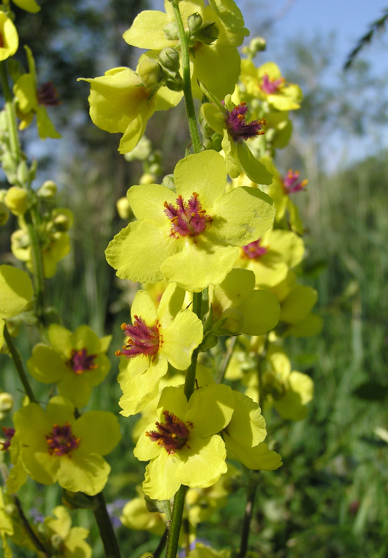 Verbascum marschallianum (Ivanina & Tzvelev), flowers. Habitat: edges of upland deciduous forest. Vicinity of Saratov city, Russia.